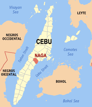 Map of Cebu showing the location of Naga